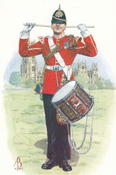 Drummer from the Corps of Drums of the 1st Btn, The Prince of Wales's Own Regiment of Yorkshire